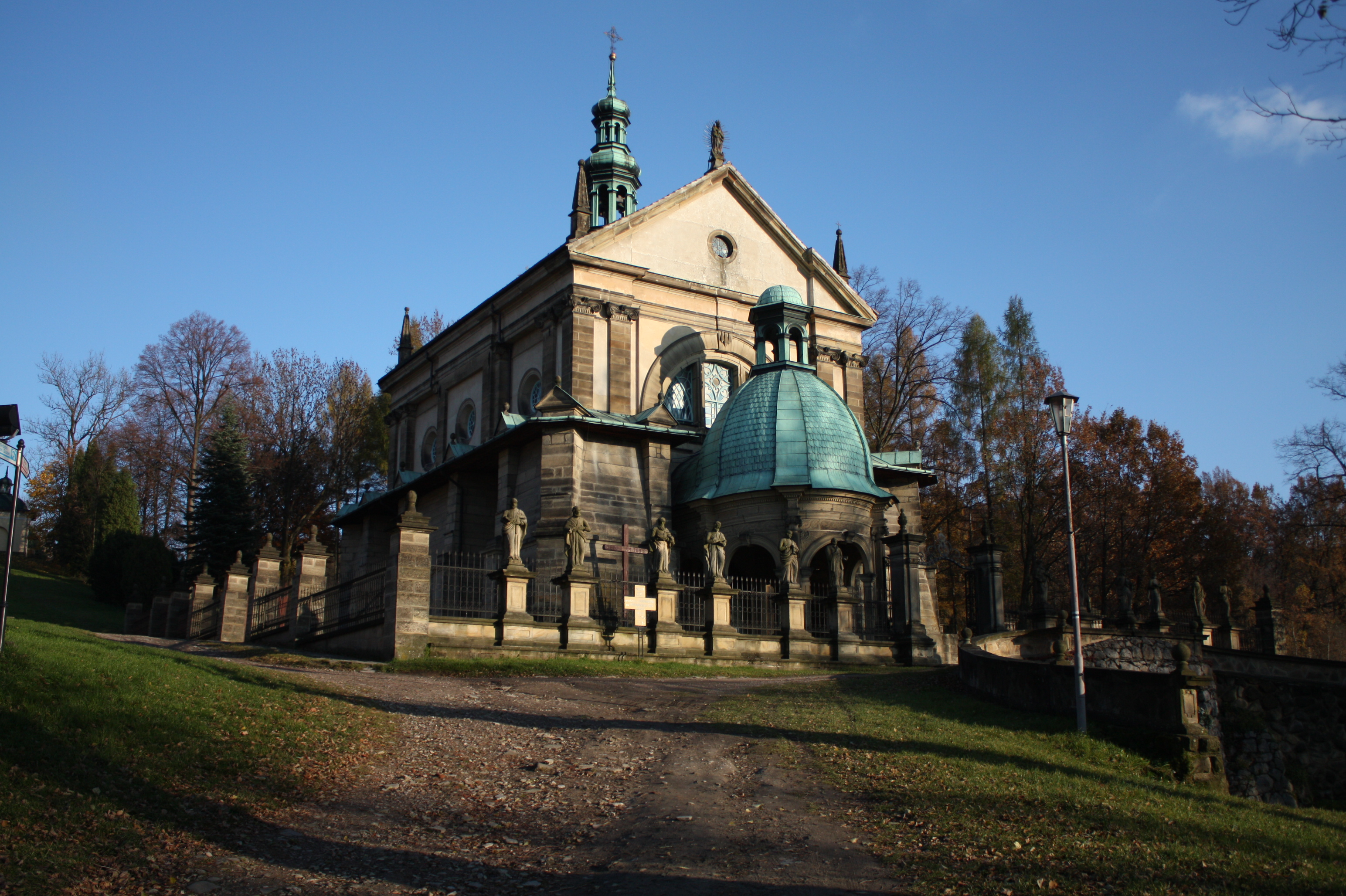 Church of the Dormition of St. Mary in Brody